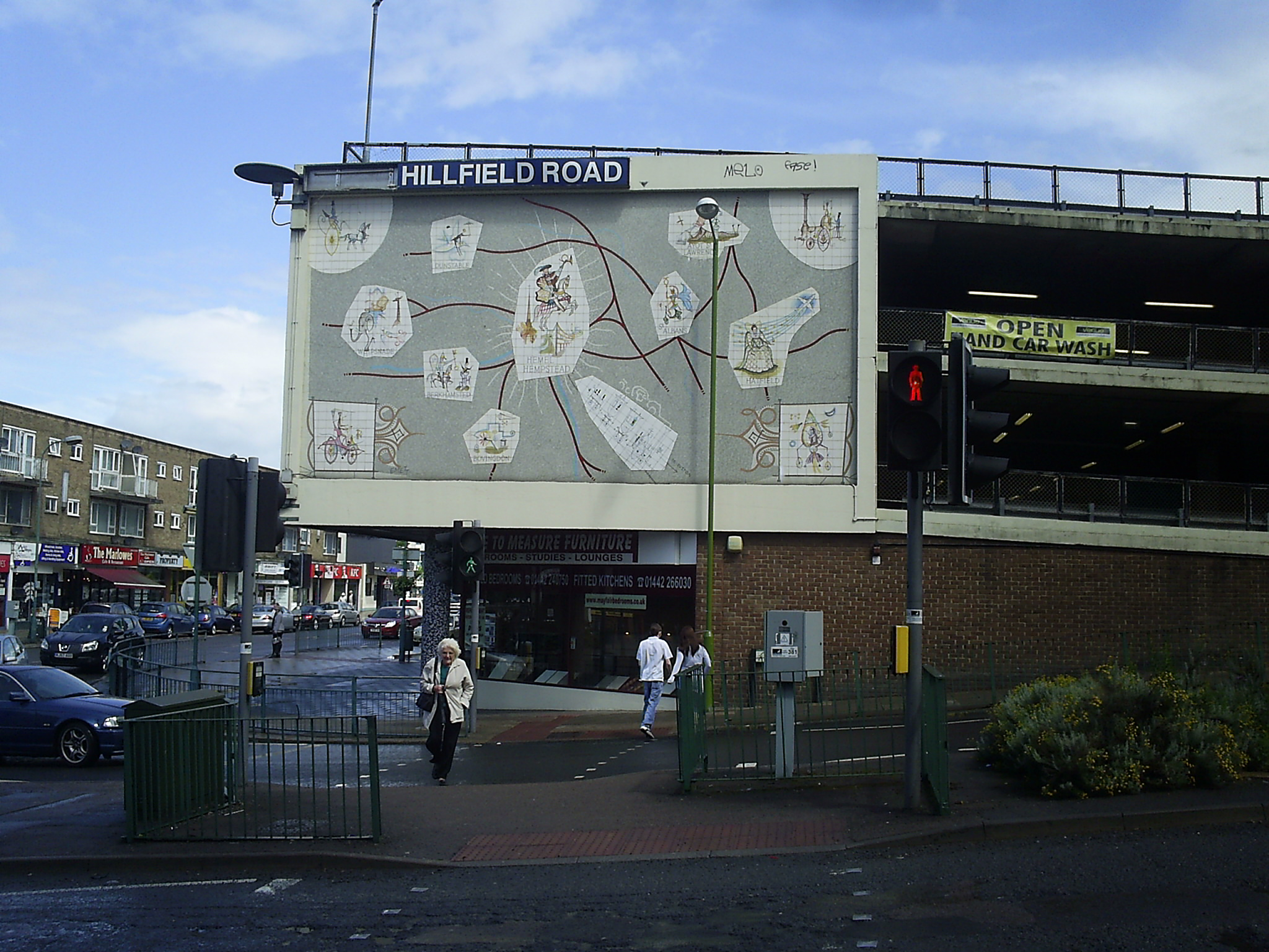 Symbolic map of Hemel Hempstead and its neighbours by the artist Rowland Emett. Entitled 'Tile Mosaic Map' it was erected in 1960 on the side of what is claimed to be the first multi story car park in the UK.